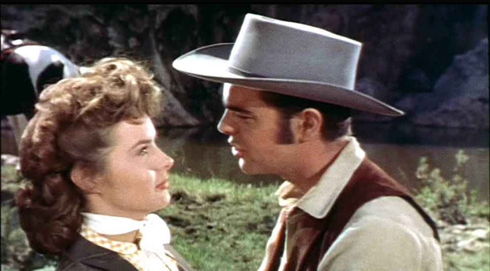 Jean Peters in a screenshot from the trailer for the film Broken Lance.